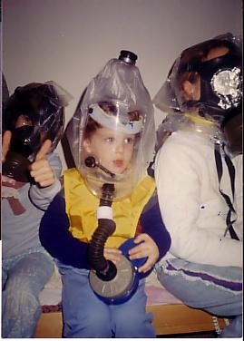 My little grandson (2) with is gasmask on January 1991